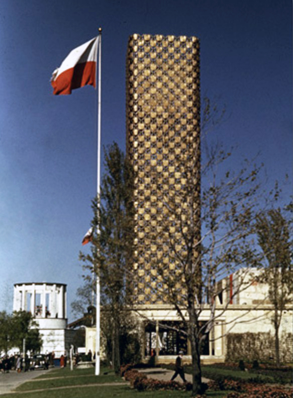 Polish pavilion at the New York World's Fair, USA 1939. Architects: Jan Cybulski and Jan Galinowski, sculptor of the monument depicting Polish king Władysław Jagiełło as equestrian statue Stanisław K. Ostrowski. Visible flag of Poland. Pavilion was located in Flushing Meadows–Corona Park in Queens, NYC. Monument of the Polish king who defeated the Teutonic Order (Deutscher Orden) in 1410 was permanently placed in Central Park, NYC in 1945. Only monument of the king survived. Kodak Kodachrome photo. WARNING:There is also better quality version of this photo. Please add larger photo. This version (292 KB) is still not sharp. Thanks. See also National coat of arms of Poland in Polish pavilion at Expo 1937 in Paris.: File:Polish_pavilion_Paris_1937.jpg